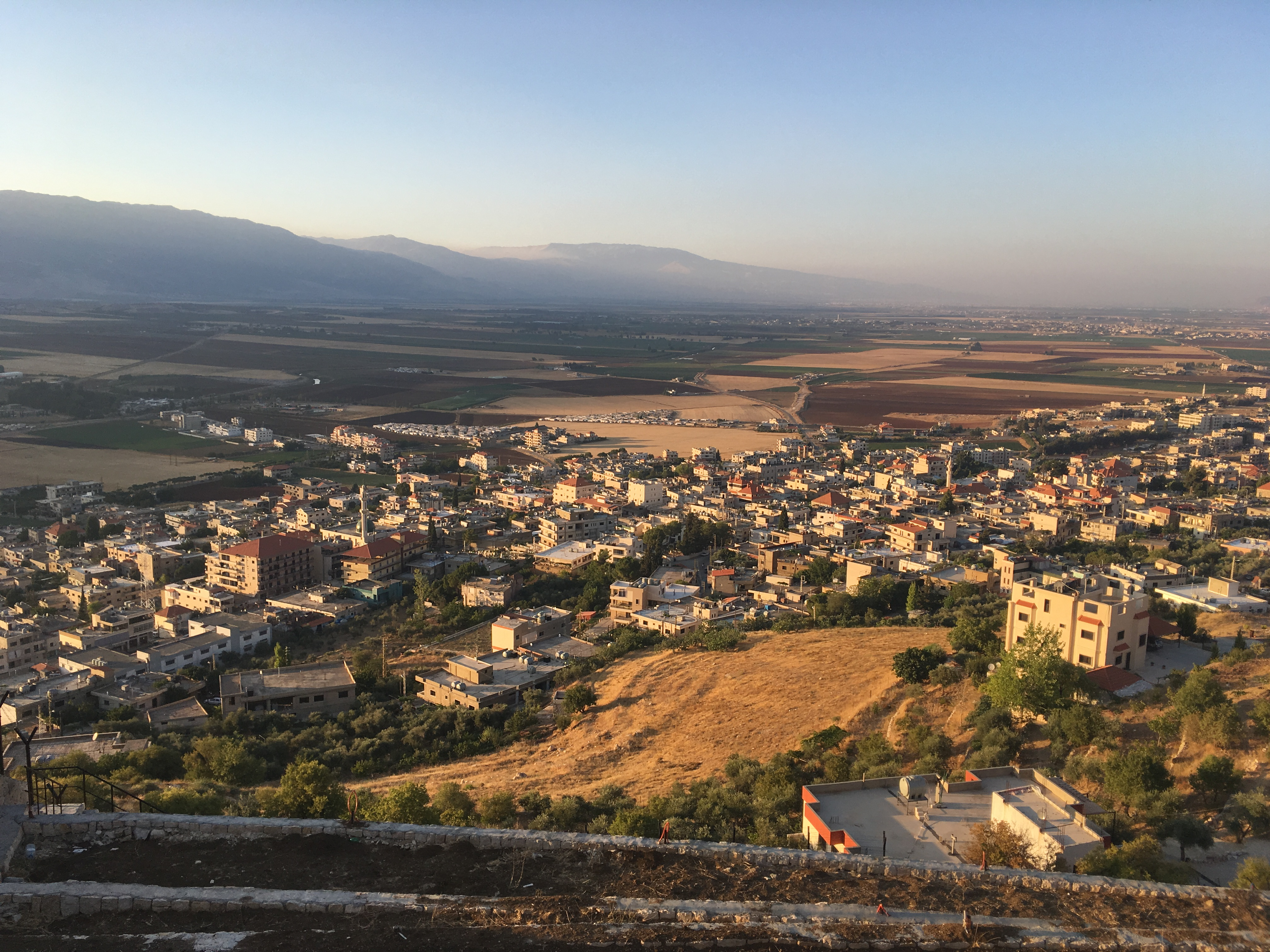 The town of Joub Jannine, Lebanon